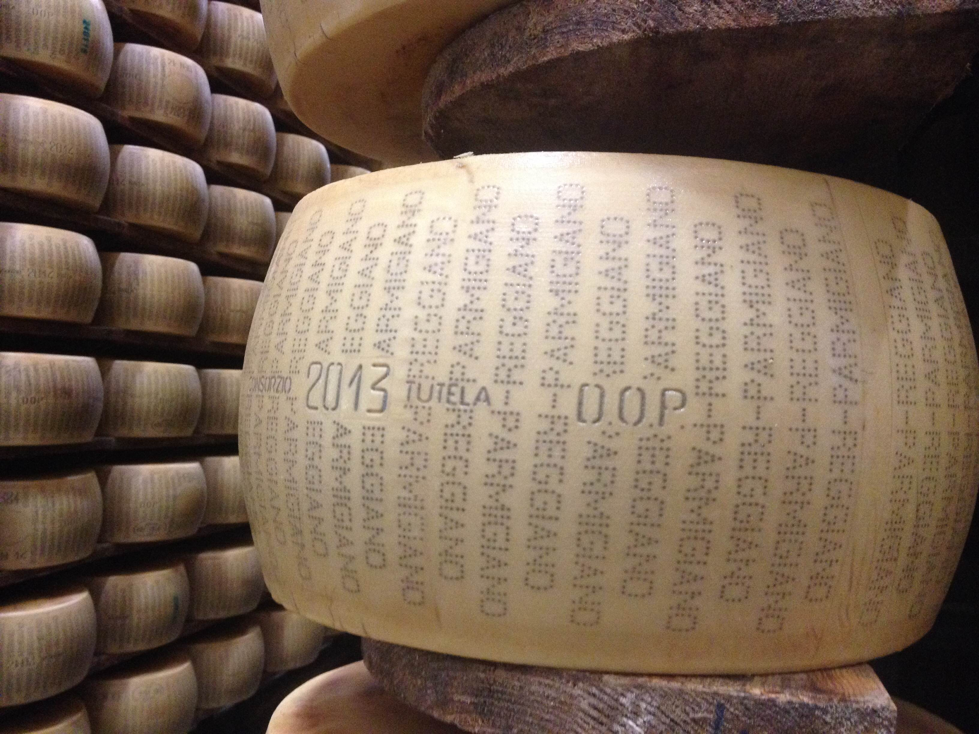 Wheel of Parmigiano-Reggiano from 2013 showing DOP marking